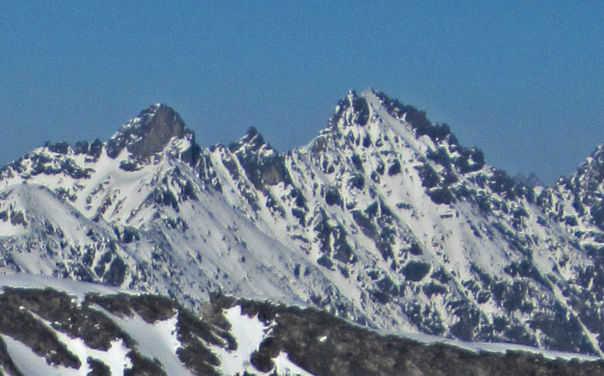 Ascending the Klawatti Glacier. Cosho Peak left, and Kimtah Peak right. North Cascades of WA